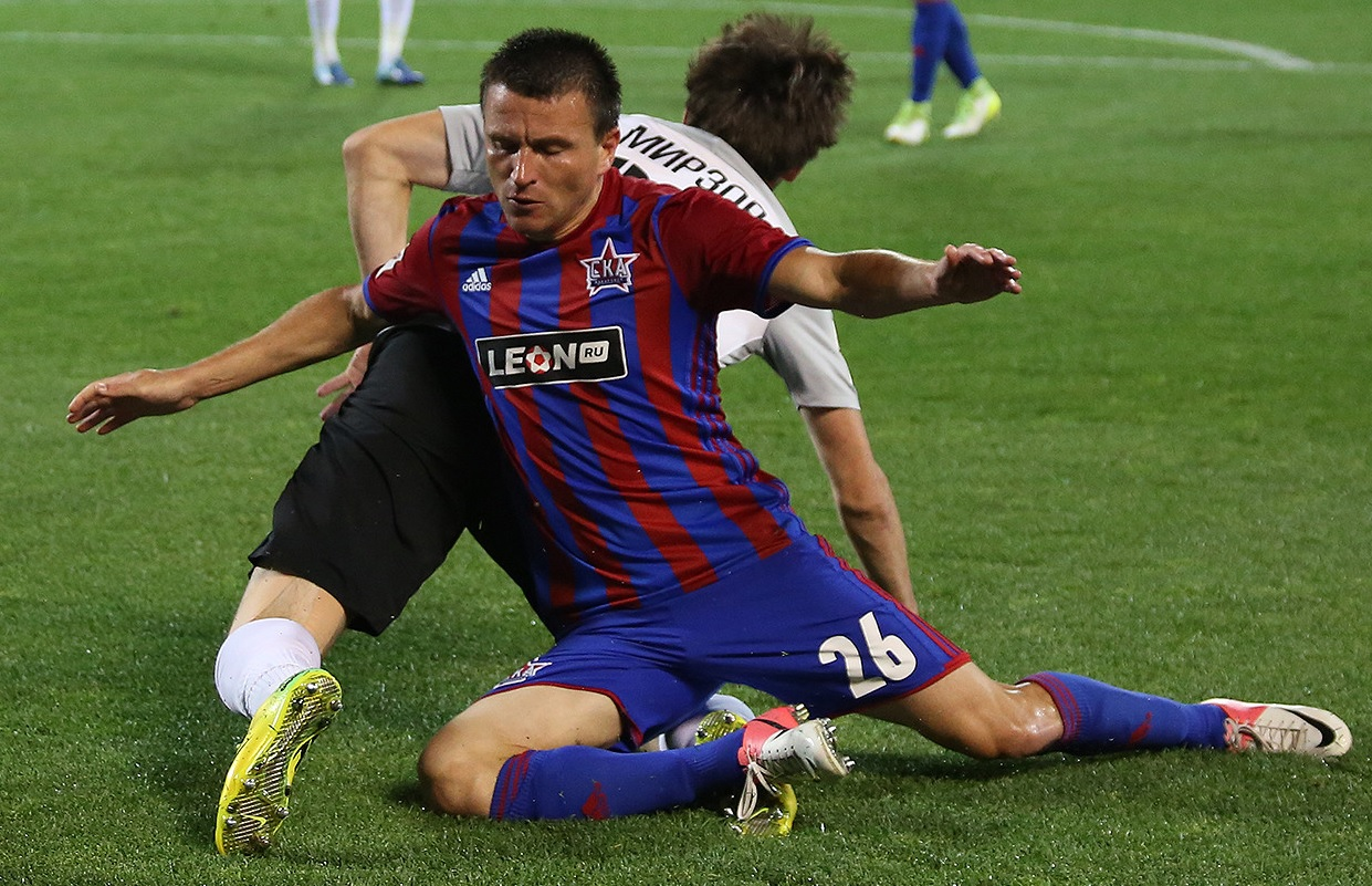 Aleksandr Cherevko with FC SKA-Khabarovsk in a game against FC Tosno.